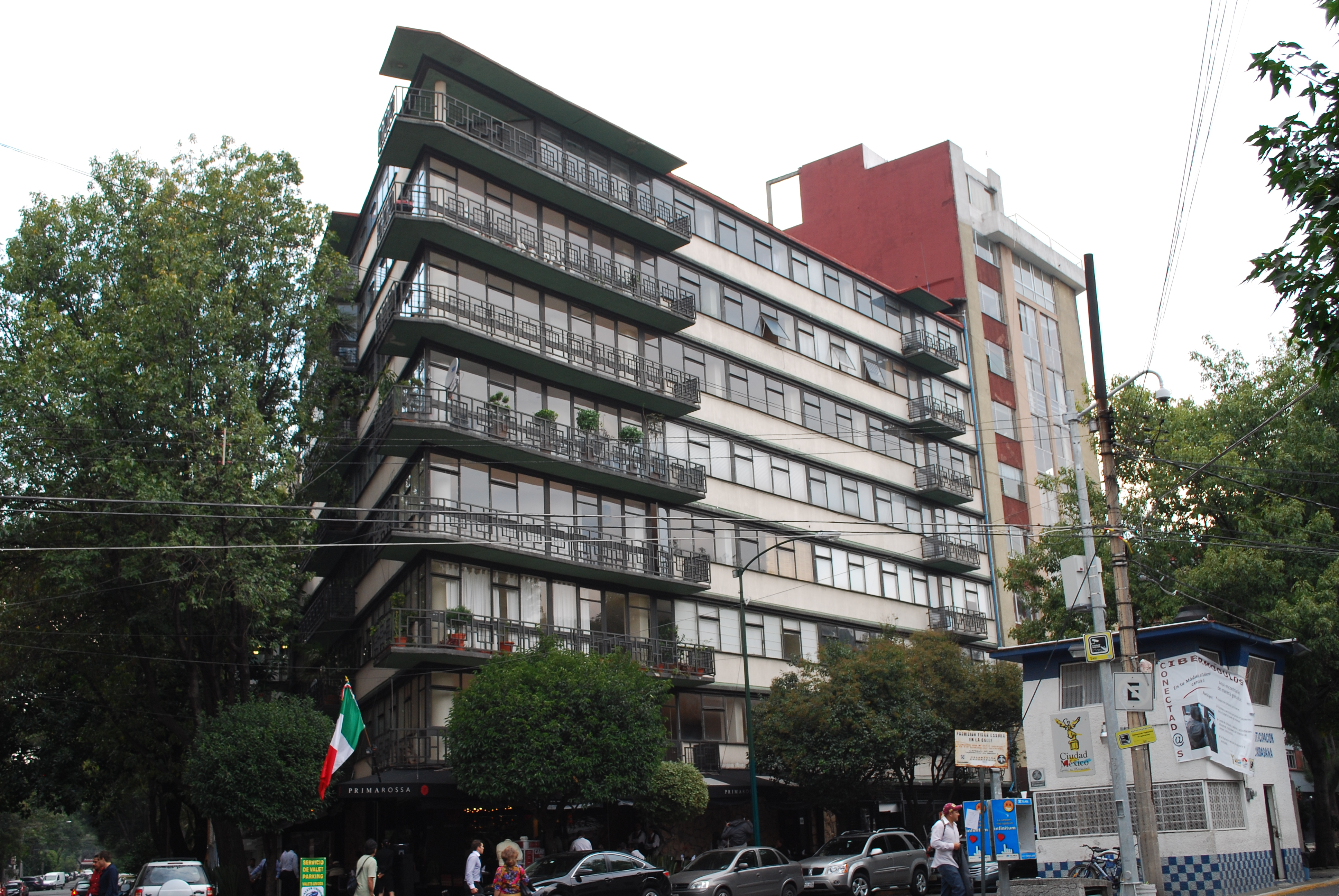 Apartment building on Avenida Michoacan in Colonia Condesa in Mexico City.